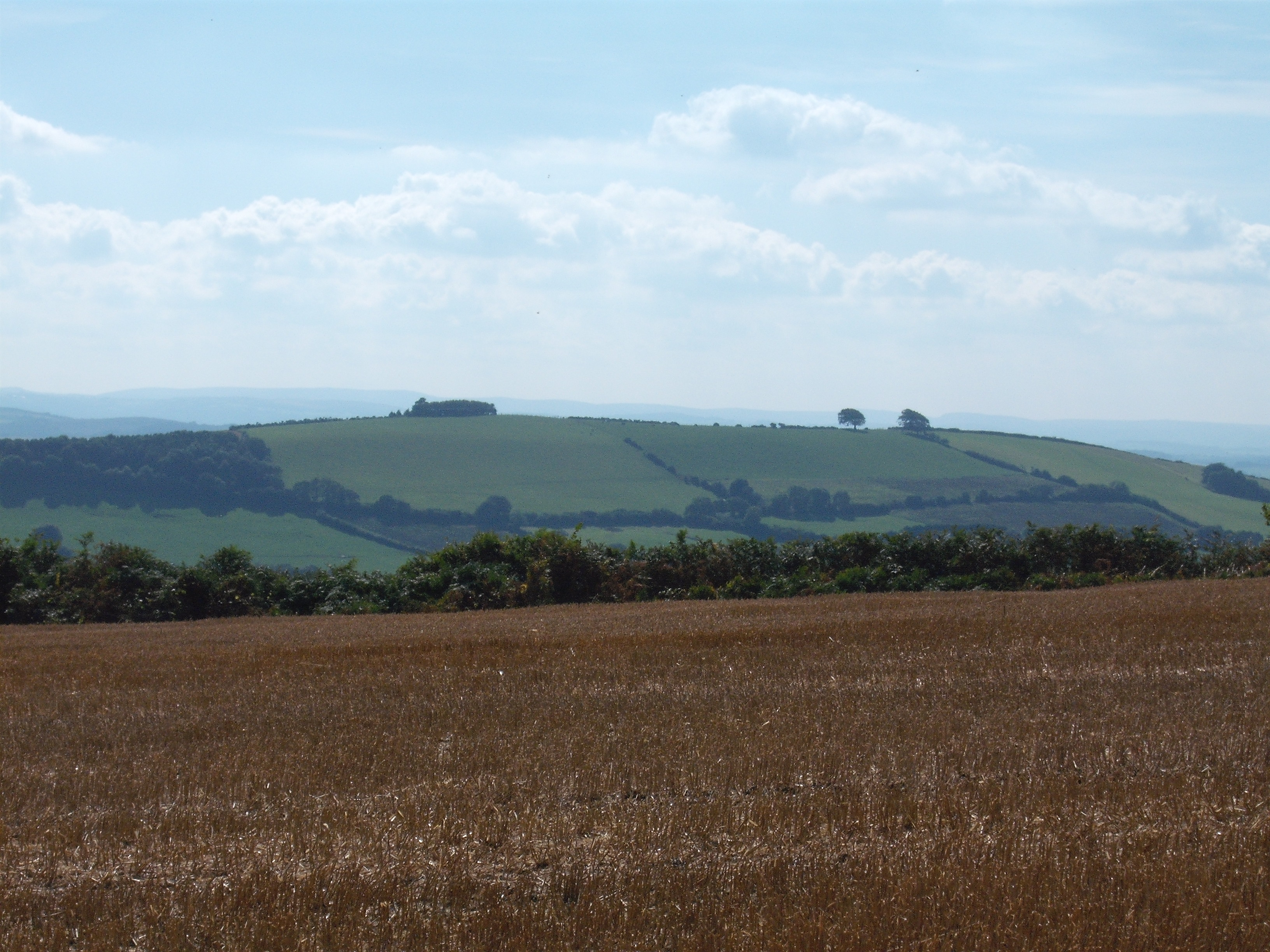 View of Raddon Top from Cadbury Castle, looking West.